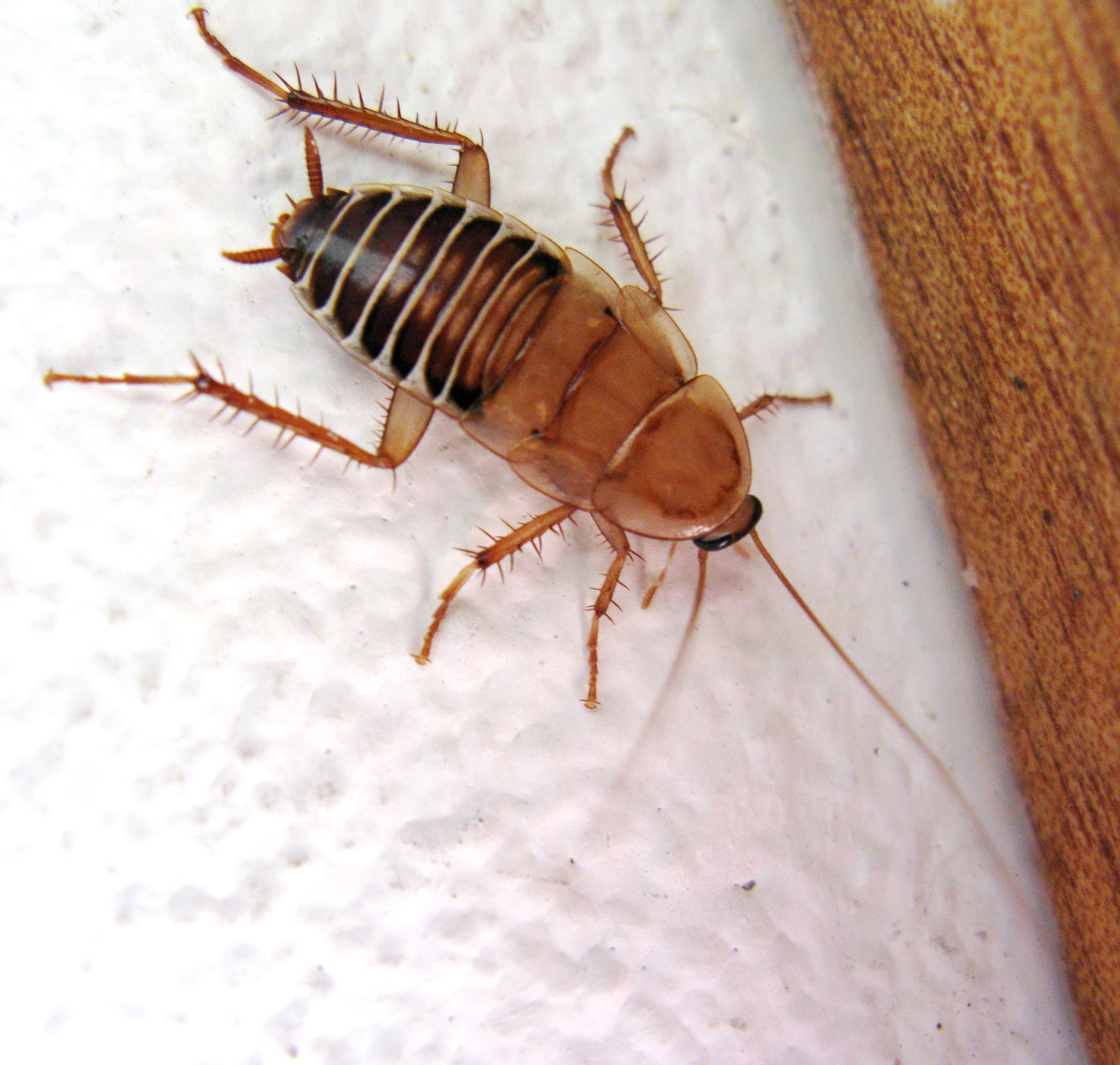 A species of Zebra cockroach in a chalet in a conservation area. About 20 km south of Uniondale, South Africa The genus Temnopteryx includes perhaps less than a dozen species of Zebra cockroaches, harmless, endemic to South Africa, mainly within the fynbos biome. Males with reduced wings, females wingless.